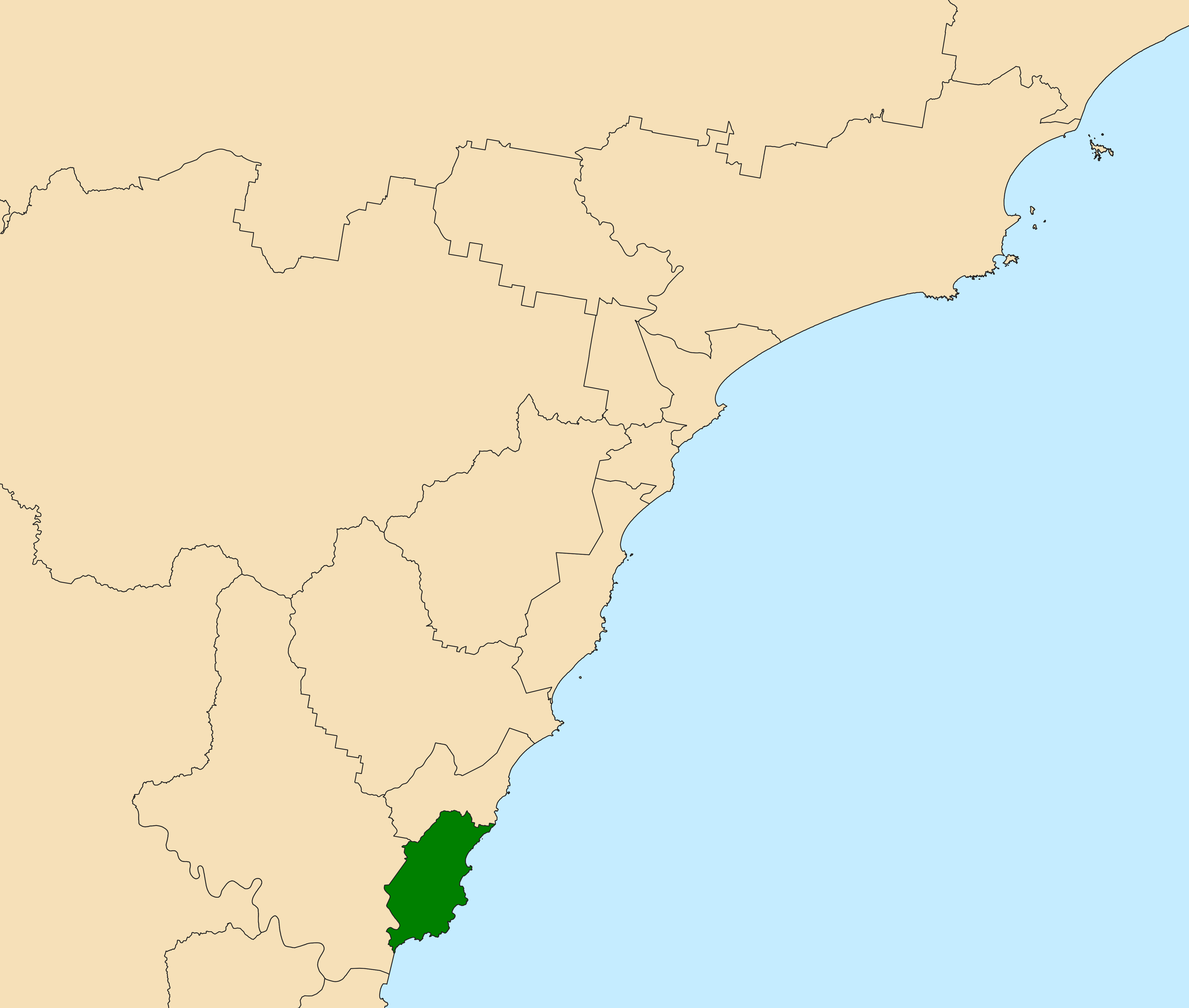 Location of the state electoral district of Terrigal (dark green) in the Central Coast region of New South Wales, Australia as of the 2019 New South Wales state election. Incorporates or developed using Administrative Boundaries ©PSMA Australia Limited licensed by the Commonwealth of Australia under Creative Commons Attribution 4.0 International licence (CC BY 4.0).